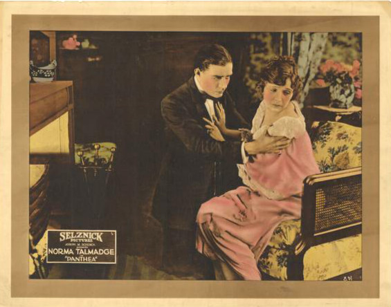 Lobby card for the American drama film Panthea (1917).